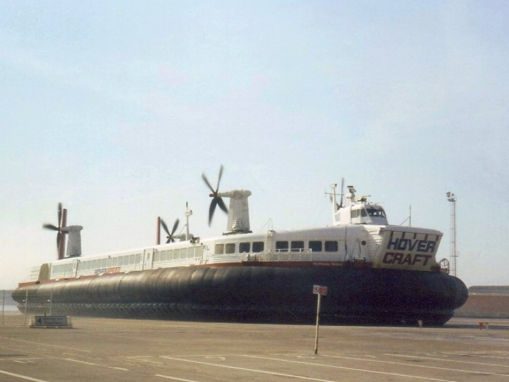 SR.N4 "The Princess Margaret" at Dover Hoverport